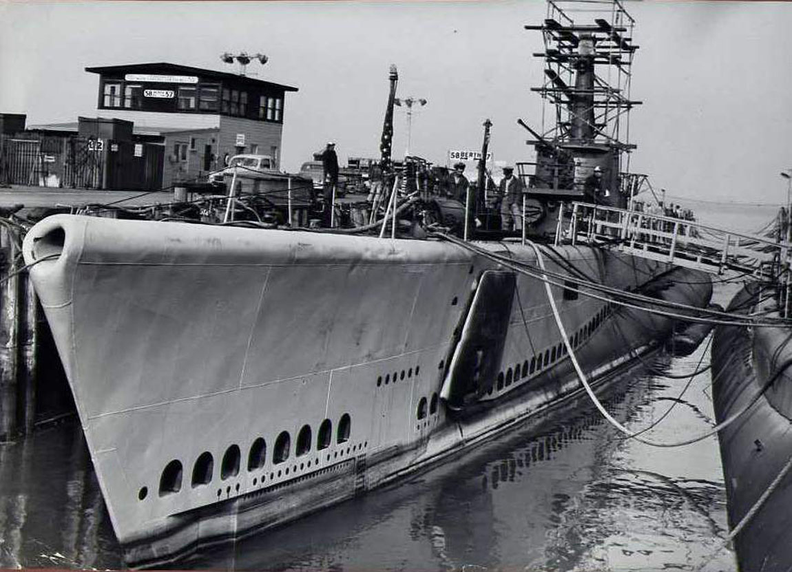 USS Brill (SS-330) during her refit. She commenced overhaul at San Francisco Naval Shipyard until 29 September 1947. Then she departed for New London on 24 February 1948. and arrived there on 16 March 1948. She was decommissioned on 23 May 1948 and turned over to Turkey as I. İnönü (D-1) the same day.